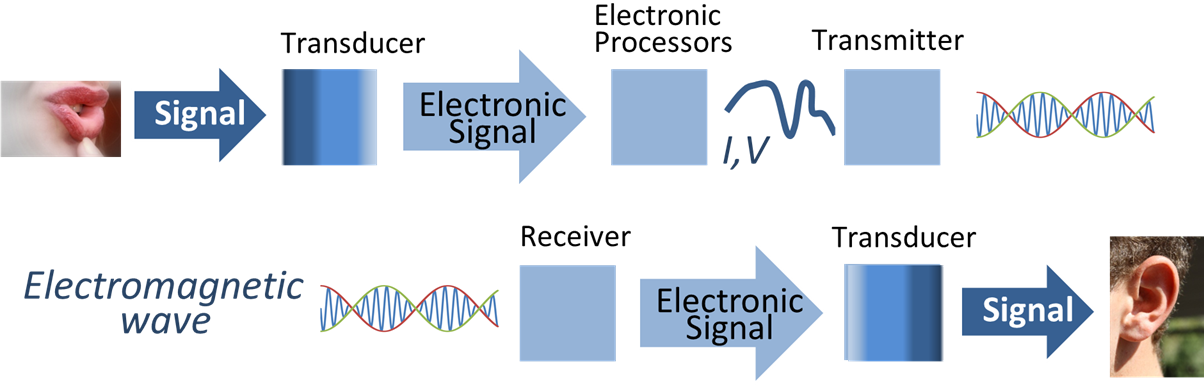 Steps in a signal communications system